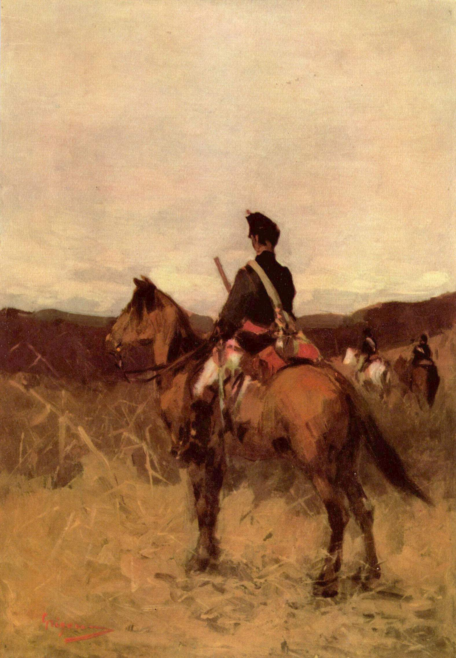 Romanian "Roşior" cavalryman